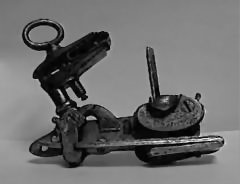 Typical Spanish patilla style miquelet lock, circa 1800.